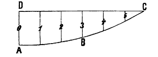 The formula used by famous ship architect Fredrik Henrik af Chapman to design ships